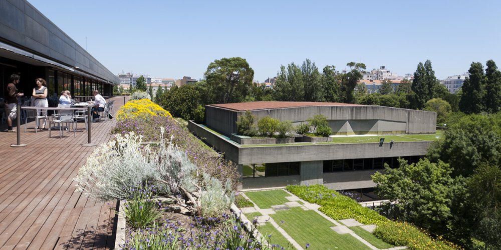 Fundação Calouste Gulbenkian, vista a partir de terraço, 2013